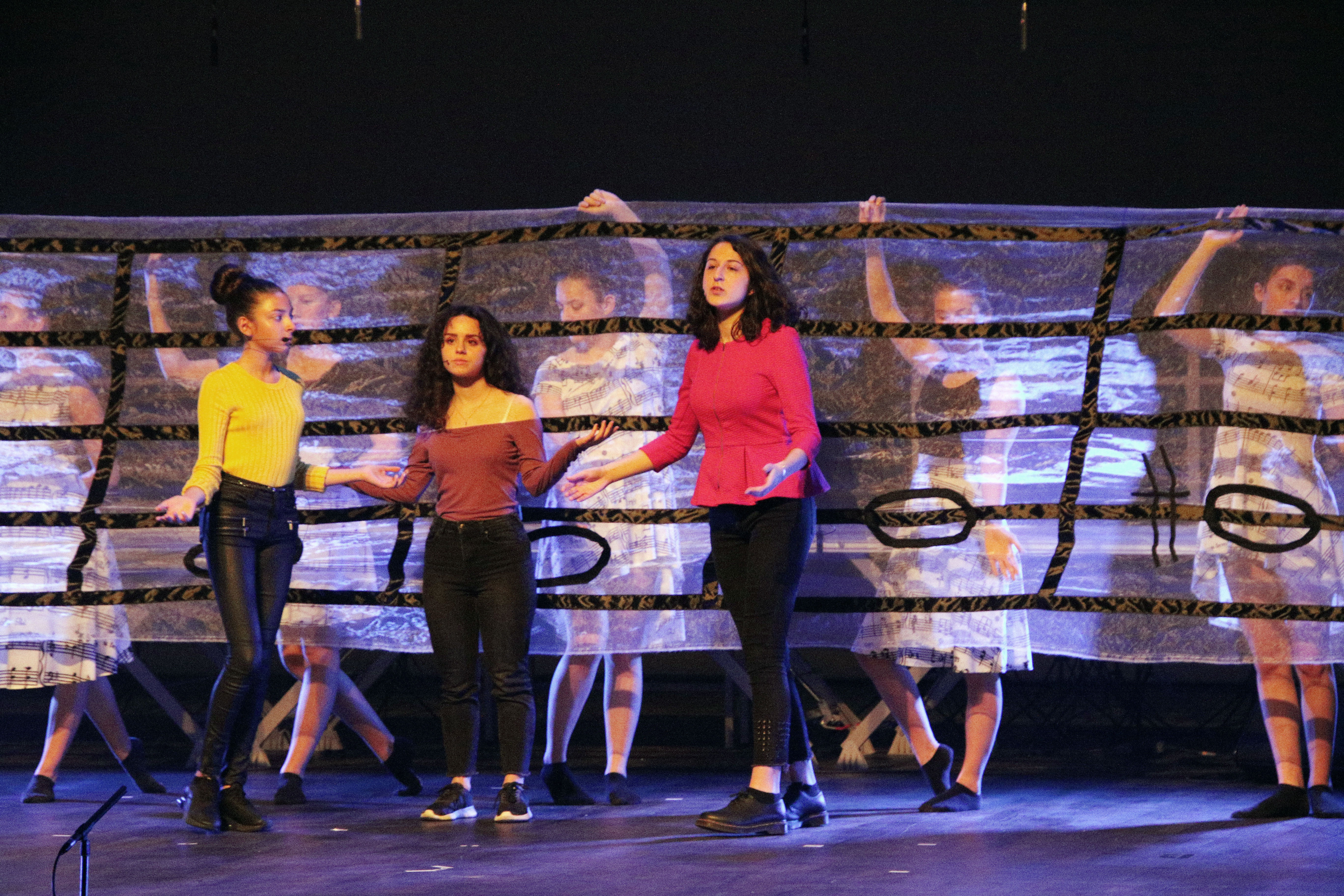 "On a volé le si bémol ! " ("The b flat has been stolen ! ") a musical show by François Narboni (2019)